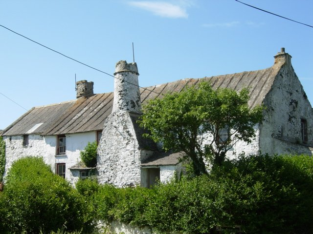 Rhosson Uchaf Farm, on the lane to St Justinian's, West of St David's / Tyddewi Unusual old large vernacular farmhouse, with a substantial circular "Flemish" chimney serving a massive projecting kitchen fireplace with its own roof, which is flanked on both sides by single-storey extensions including the deep-set entrance. It is currently unoccupied. The slate roof has a typical lime render grouting for weatherproofing against the Irish Sea gales and the walls are lime-washed. I would have loved to have been able to explore its interior and work out the history of its construction. "Rhosson Uchaf farm, a classic example of the sub-medieval North Pembrokeshire house with a round chimney and lateral outshut, is Grade II* listed" according to: .